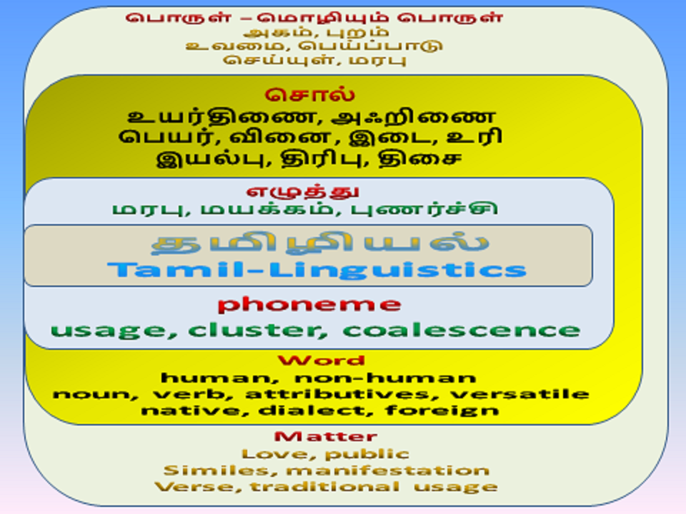 தமிழ் மொழியின் இயல்பு விளக்கப்பட்டுள்ளது. Tamil Linguistic Structure is depicted.